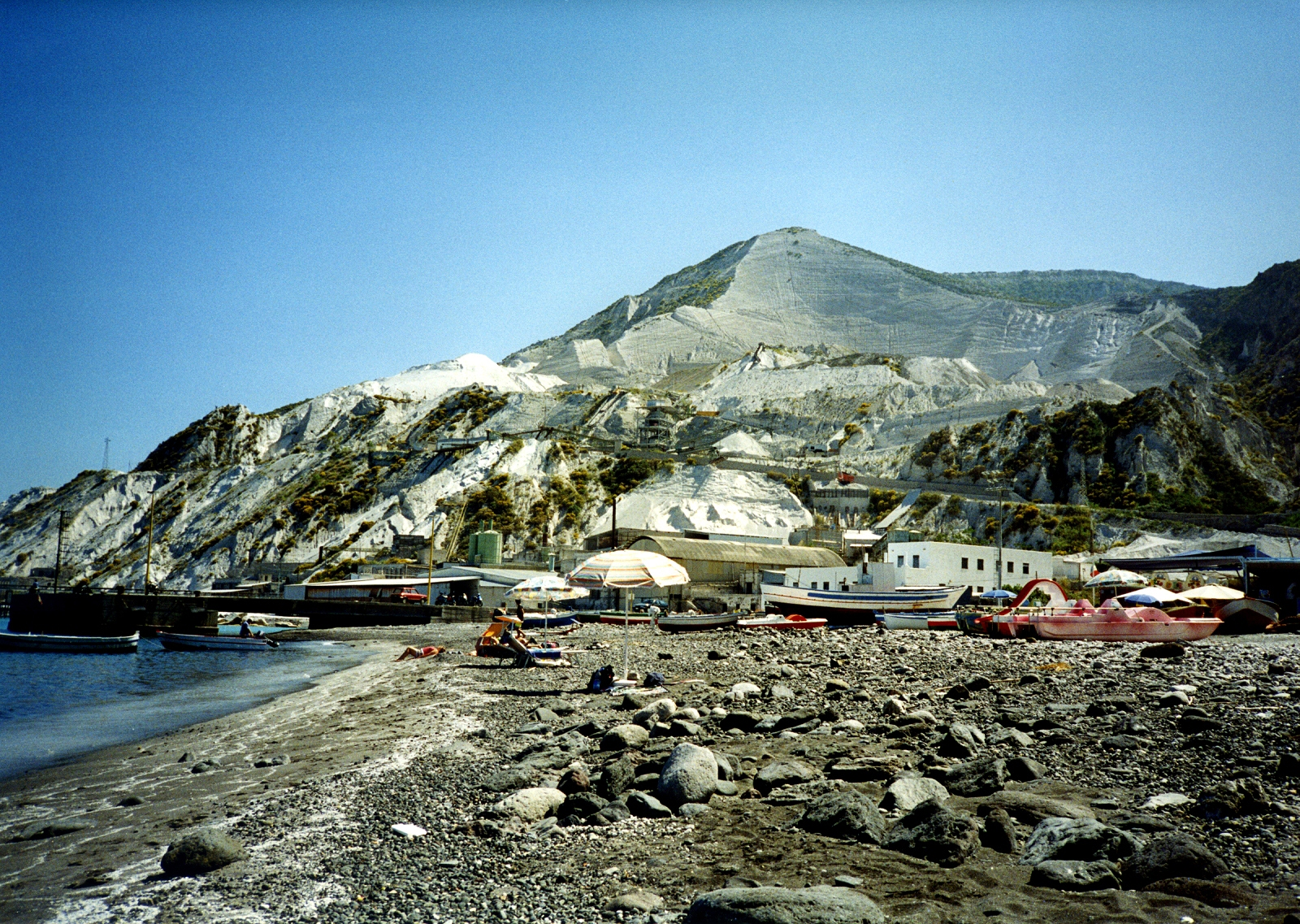 Pumice mine near Acquacalda on the northern coast of Lipari, the main island of the Aeolian Islands in the Tyrrhenian Sea north of Sicily in Italy. (Notice the beach and the water full of white pumice)